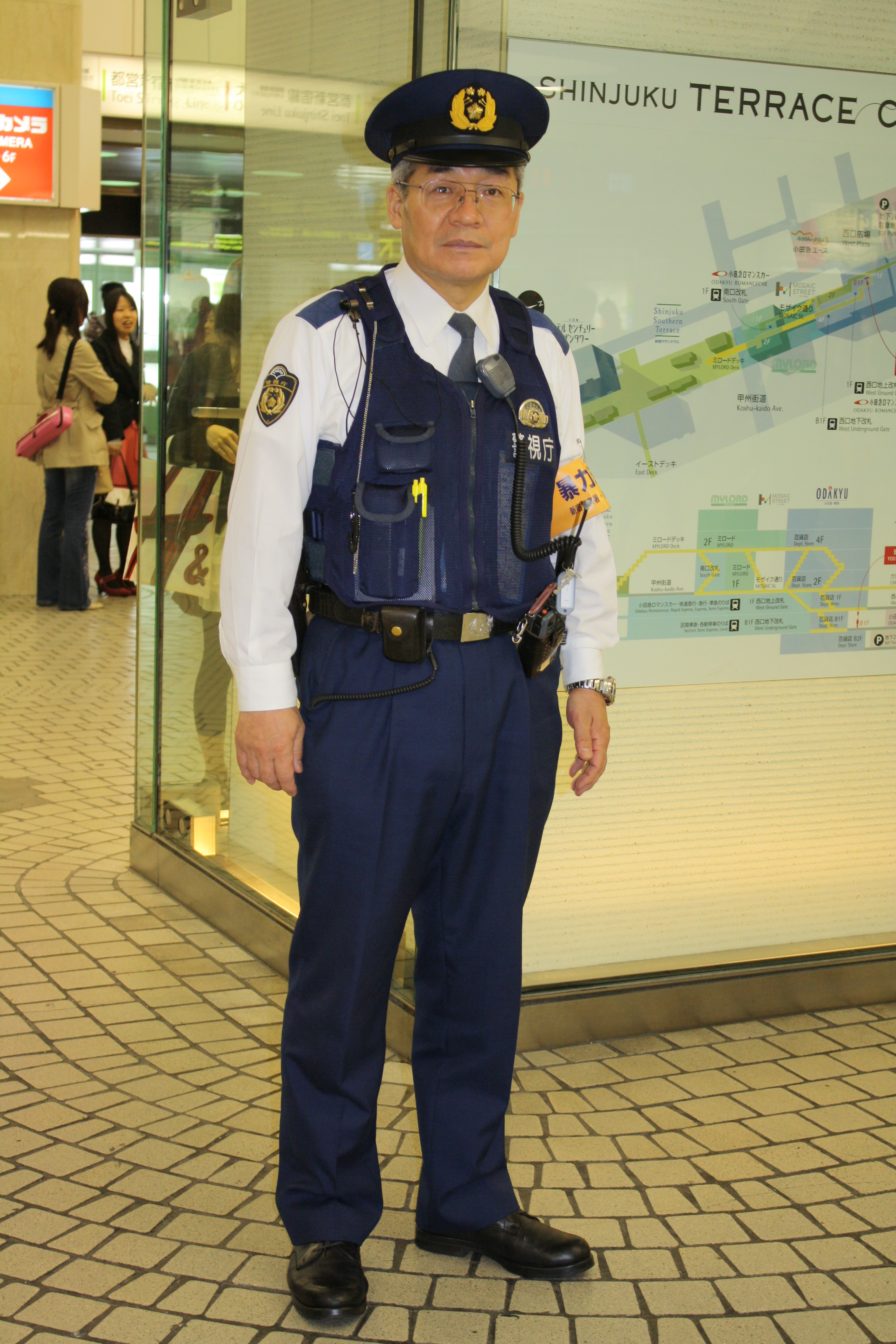 Tokyo Metropolitan Police Officer, Shinjuku Station, Tokyo, Japan